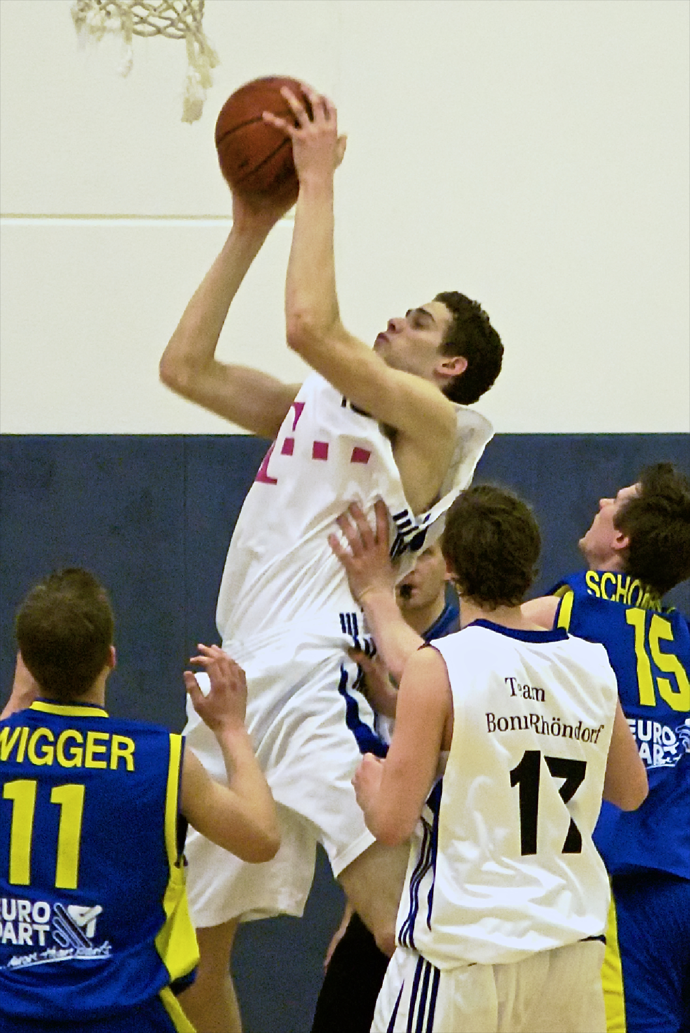 Photo of Jonas Wohlfahrt-Bottermann (and others) in an NBBL basketball game of the Dragons Bonn Röhndorf against Phönix Hagen, february 18th, 2009